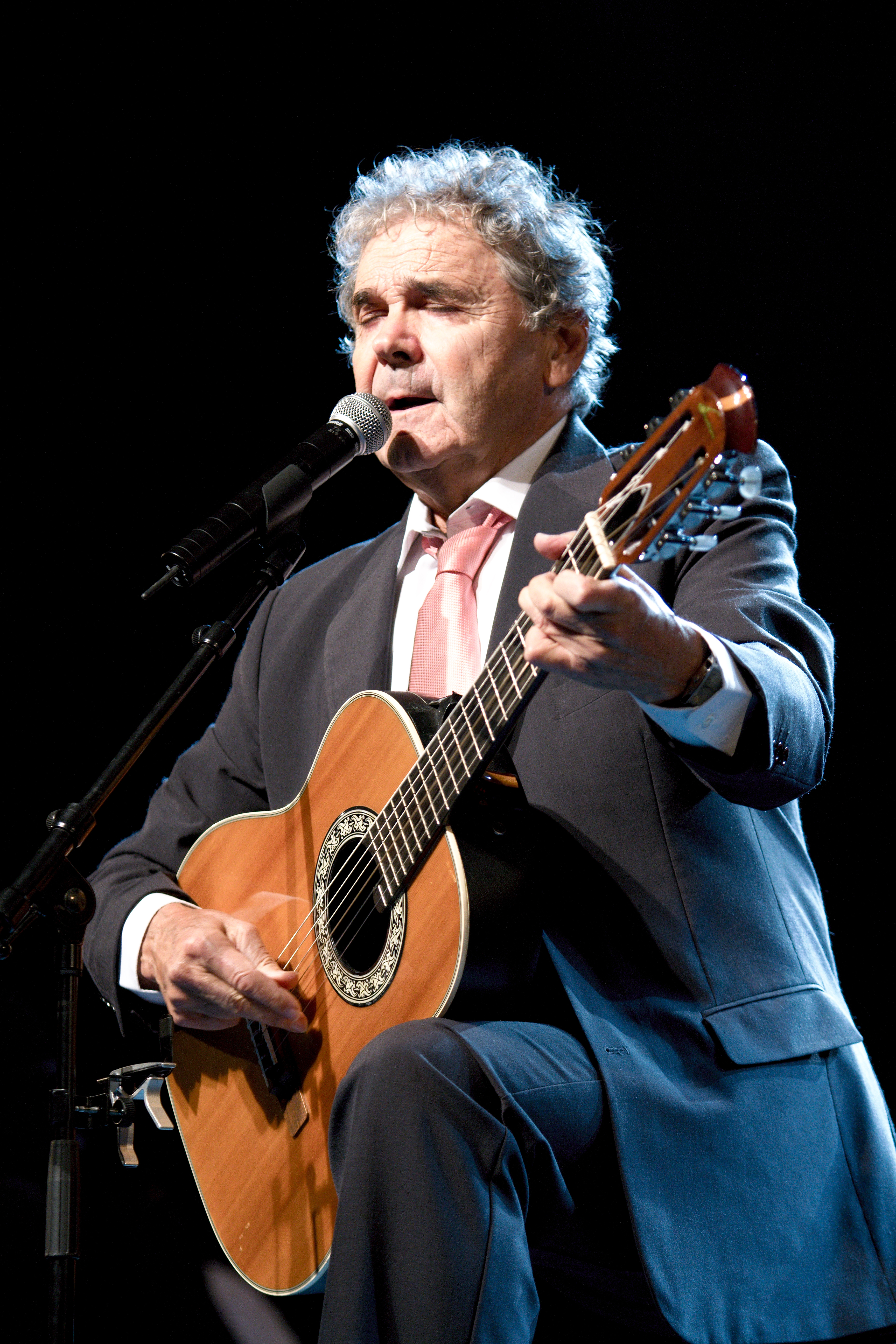 Pierre Perret live during the French song festival 2010 in Aix-en-Provence (France).